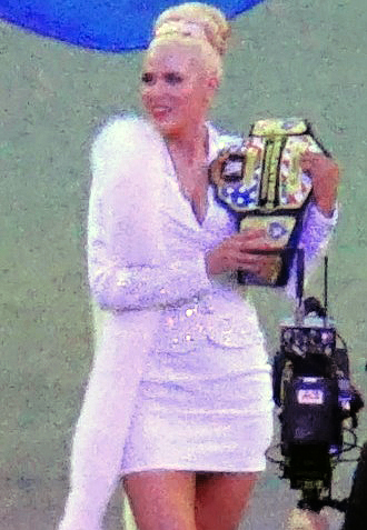 Lana making her entrance to the ring at WrestleMania 31.